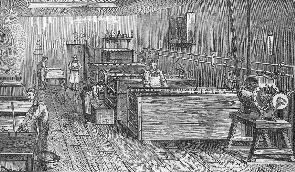 Source: The Electro-Plating and Electro-Refining of Metals Arnold Philip, 1911. D. Van Nostrand Company. Fig. 108: "Nickel-plating by Dynamo-electricity"